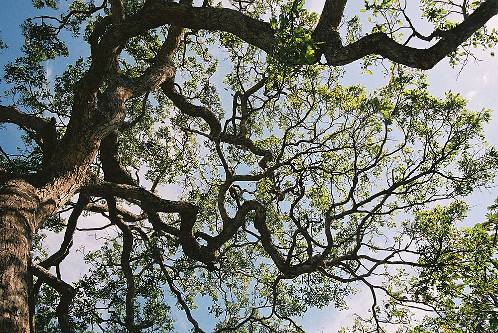 A large and spreading tree found in the western parts of the Amazon drainages. Photo from Santa Cruz Botanical Gardens, eastern Bolivia.